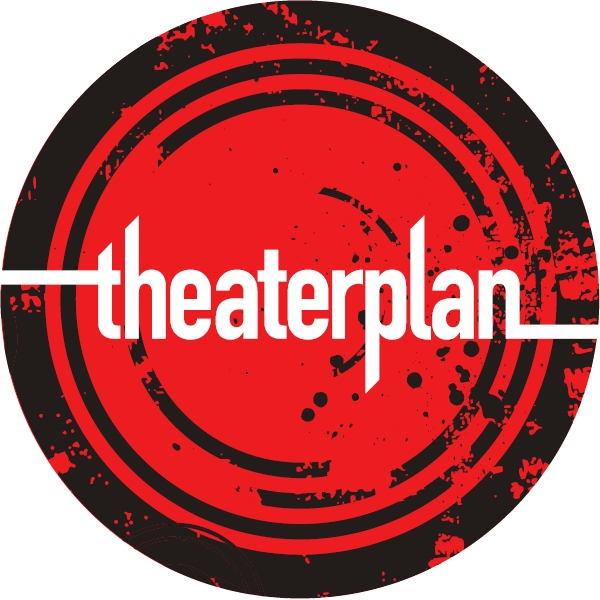 Logo of Stichting Theaterplan Eindhoven.